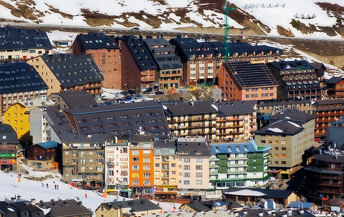 The ski resort town of Pas de la Casa, Andorra. (Green building at lower-right is the Hotel Kandahar, the intended subject of this photo).